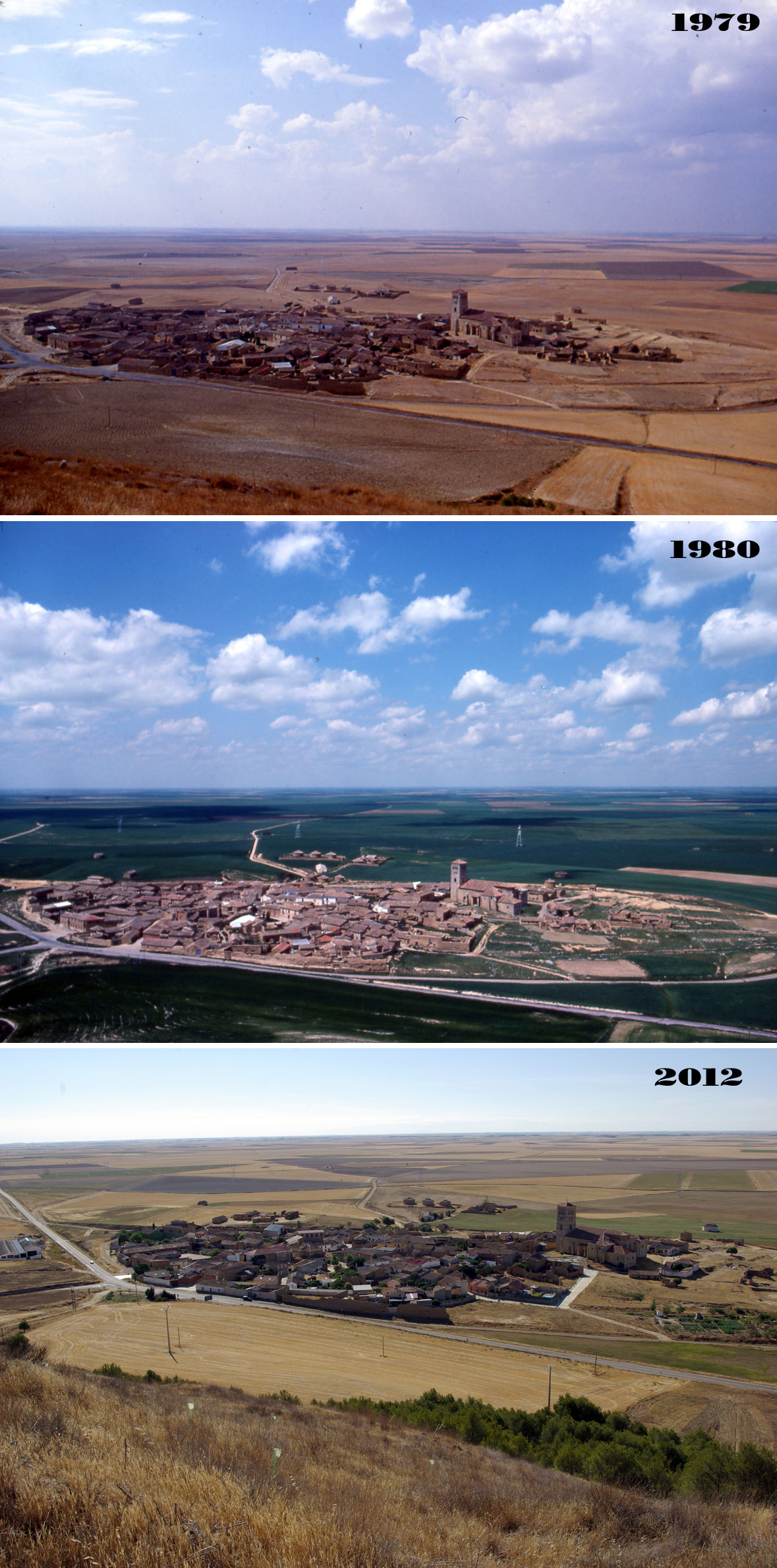 Torremormojón over the time. Palencia, Spain.